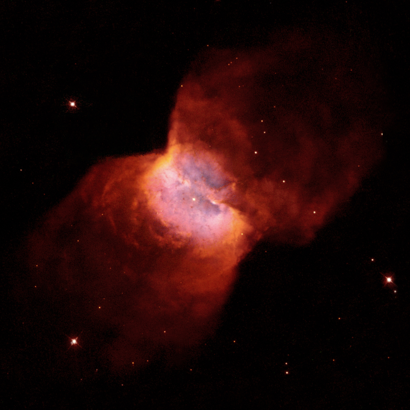 The Hubble Space Telescope's Wide Field and Planetary Camera 2 (WFPC2) is back at work, capturing this image of the "butterfly wing"-shaped nebula, NGC 2346. The nebula is about 2,000 light-years away from Earth in the direction of the constellation Monoceros. It represents the spectacular "last gasp" of a binary star system at the nebula's center. The image was taken on March 6, 1997 as part of the recommissioning of the Hubble Space Telescope's previously installed scientific instruments following the successful servicing of the HST by NASA shuttle astronauts in February. WFPC2 was installed in HST during the servicing mission in 1993. At the center of the nebula lies a pair of stars that are so close together that they orbit around each other every 16 days. This is so close that, even with Hubble, the pair of stars cannot be resolved into its two components. One component of this binary is the hot core of a star that has ejected most of its outer layers, producing the surrounding nebula. Astronomers believe that this star, when it evolved and expanded to become a red giant, actually swallowed its companion star in an act of stellar cannibalism. The resulting interaction led to a spiraling together of the two stars, culminating in ejection of the outer layers of the red giant. Most of the outer layers were ejected into a dense disk, which can still be seen in the Hubble image, surrounding the central star. Later the hot star developed a fast stellar wind. This wind, blowing out into the surrounding disk, has inflated the large, wispy hourglass-shaped wings perpendicular to the disk. These wings produce the butterfly appearance when seen in projection. The total diameter of the nebula is about one-third of a light-year, or 2 trillion miles.